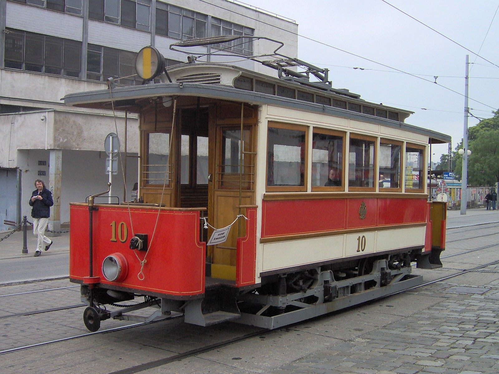 Historical tram No. 10, 140 years of public transport in Brno, Czech Republic